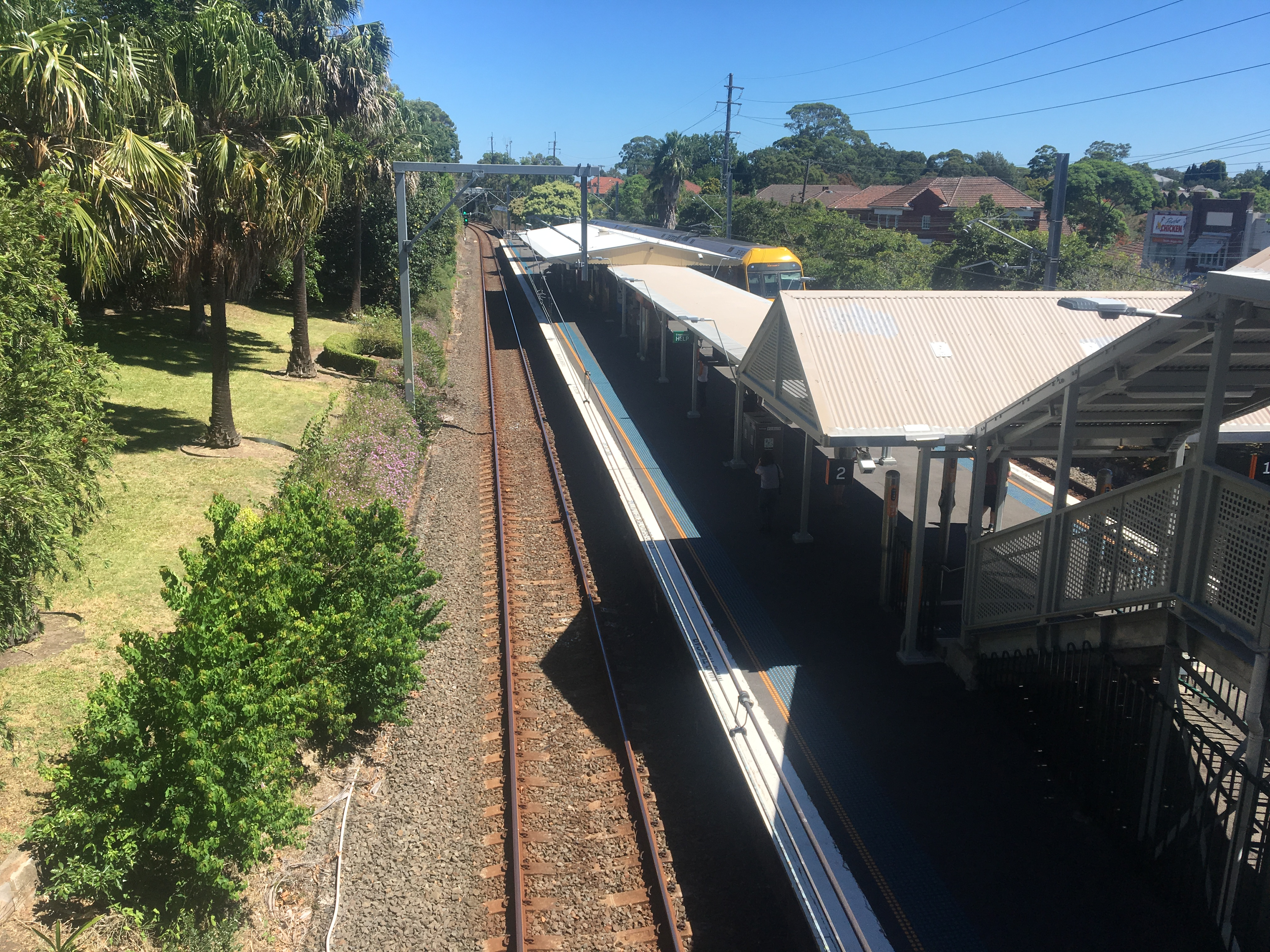 Depicted place: Roseville railway station